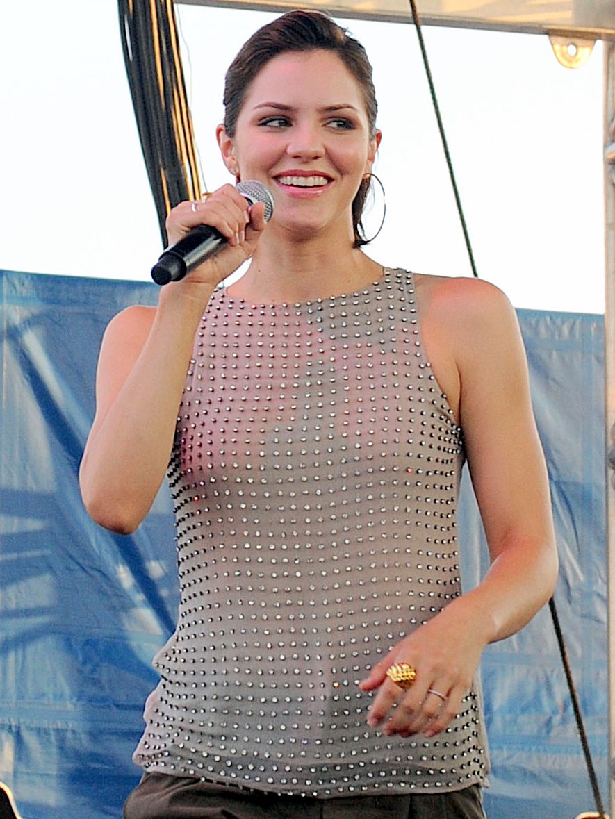 Singer Katharine McPhee at the Army Concert Tour - Fort Knox 2010.